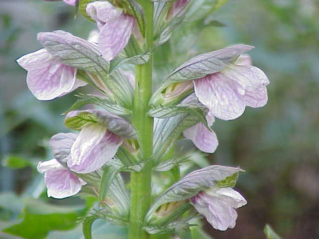 Species: Acanthus hungaricus Family: Acanthaceae Image No. 1